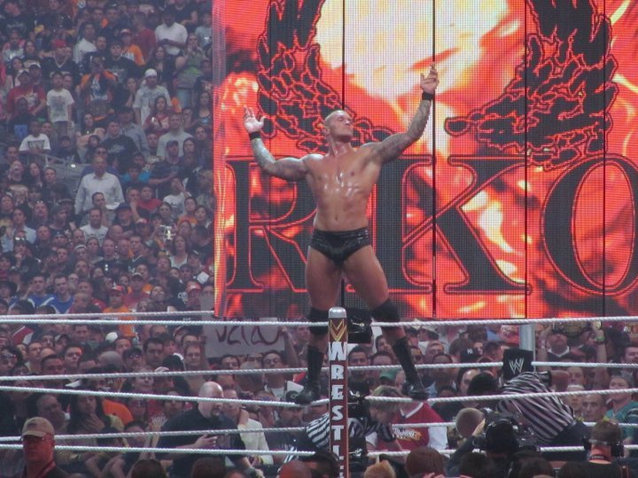 Randy Orton in the ring, after defeating Cody Rhodes and Ted DiBiase in a triple threat match